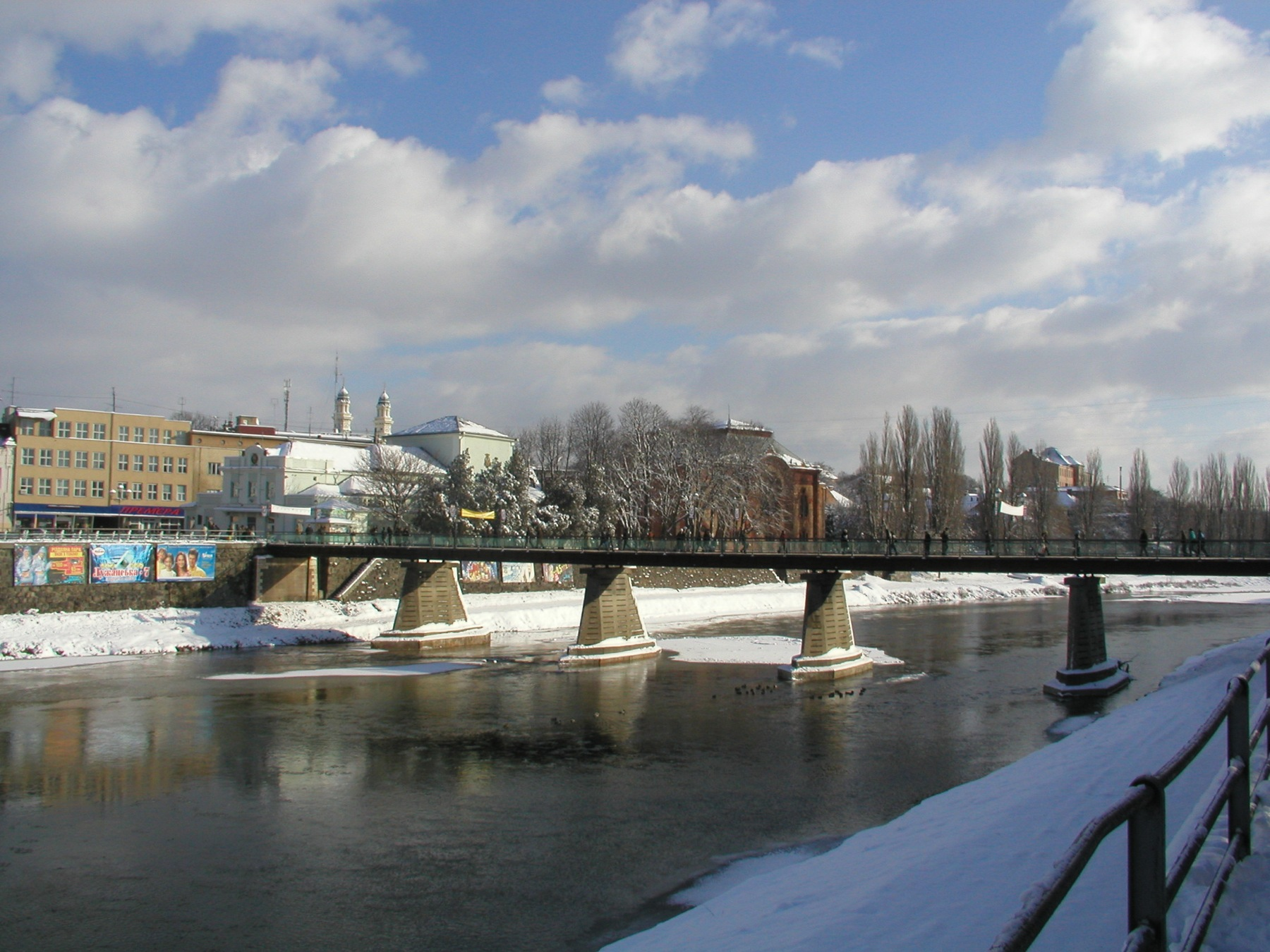 The Uzh River at Uzhorod in winter time